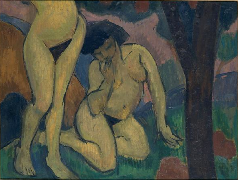 Roger de La Fresnaye, 1910, Deux nus dans un paysage, oil on canvas, 59 x 74 cm, MNAM, Centre Pompidou, Paris